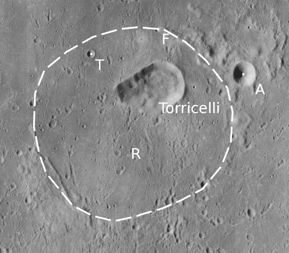 Crater Torricelli with satellite features (detail of LRO - WAC global moon mosaic; Mercator projection)